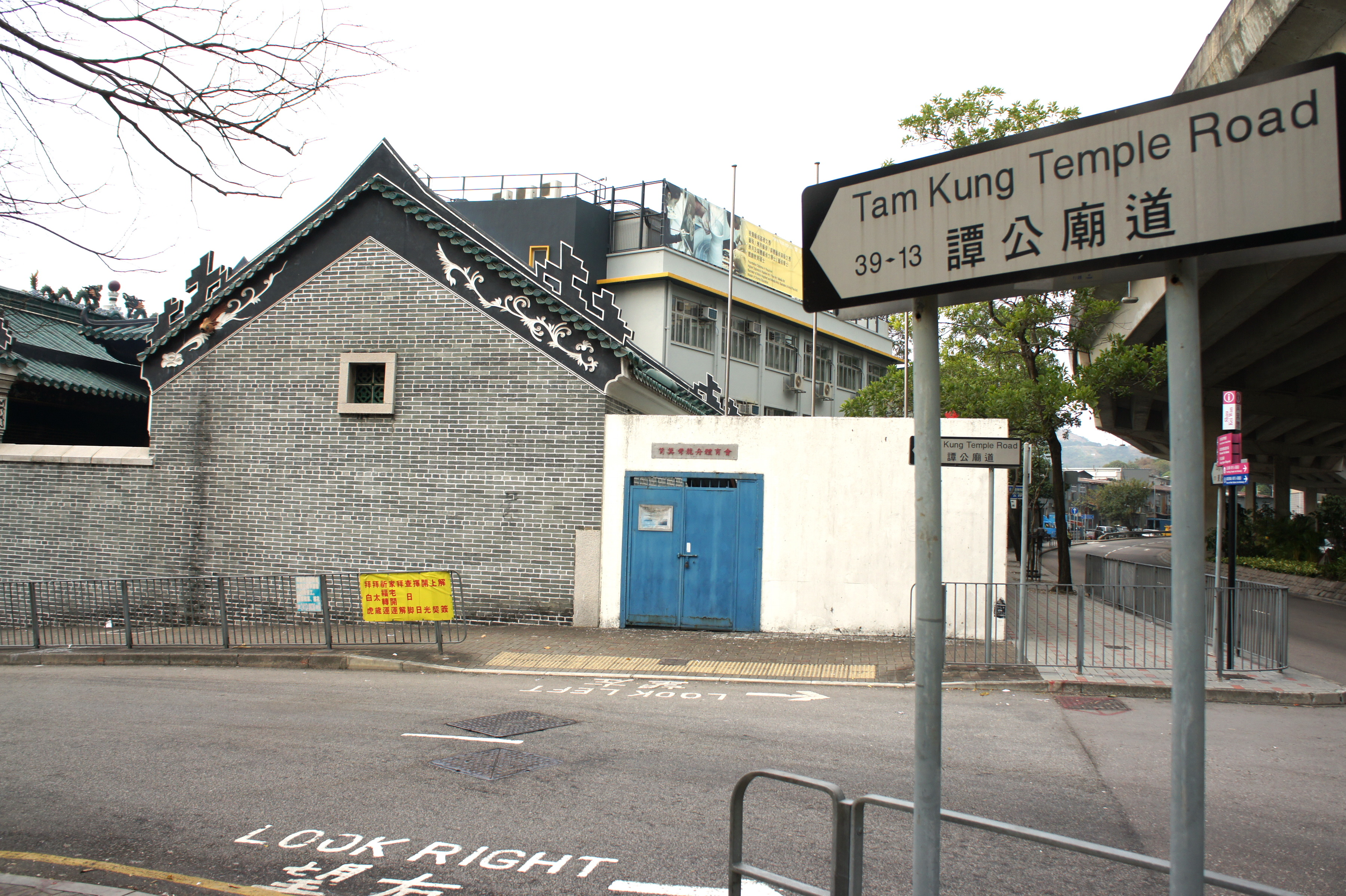 Tam Kung Temple, Shau Kei Wan, Hong Kong.